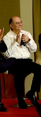 Success media meet of 'Neerja' (cropped)